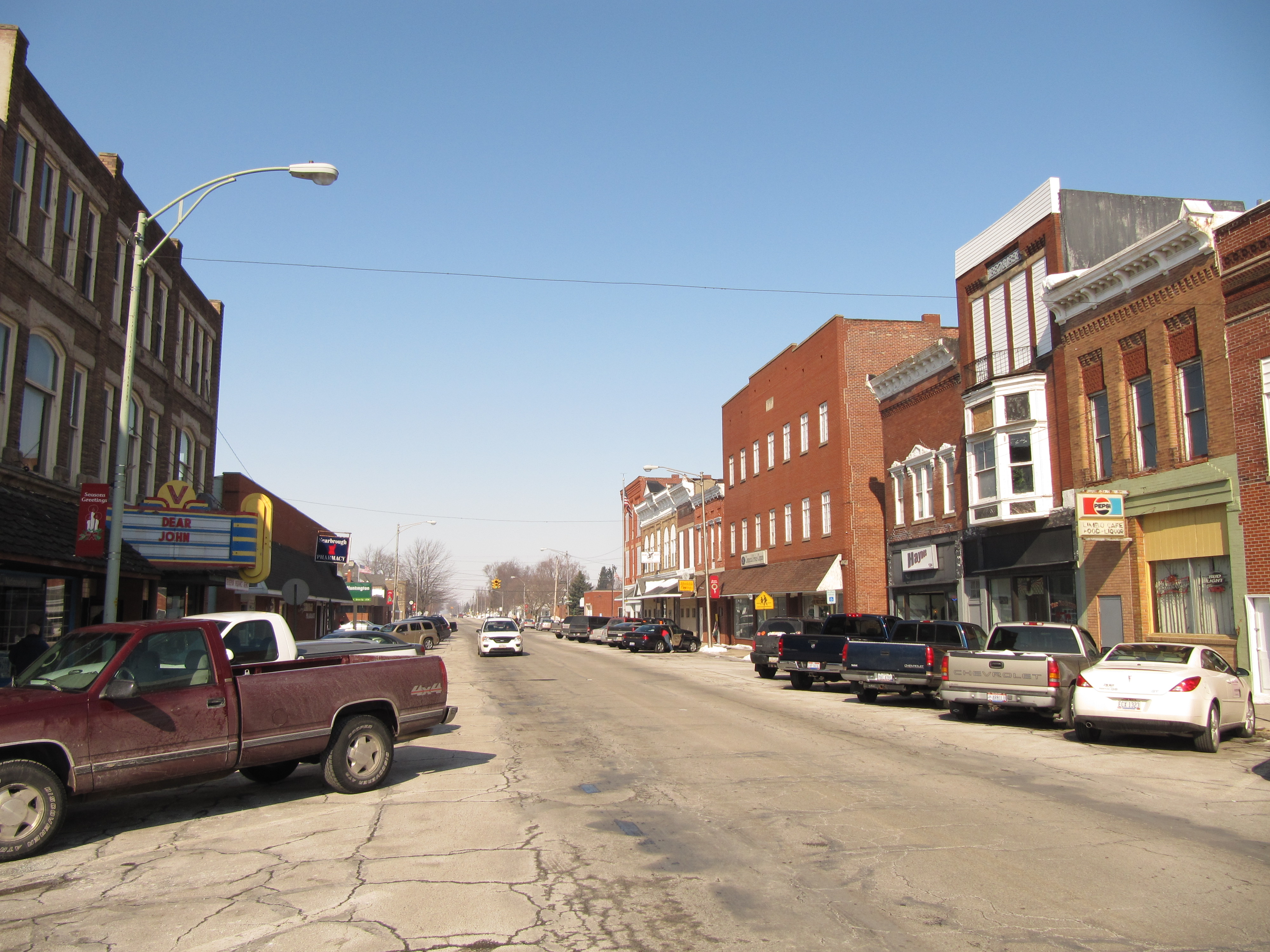 Photograph of the village of North Baltimore, Ohioen, taken at street level from Main Street, looking North.